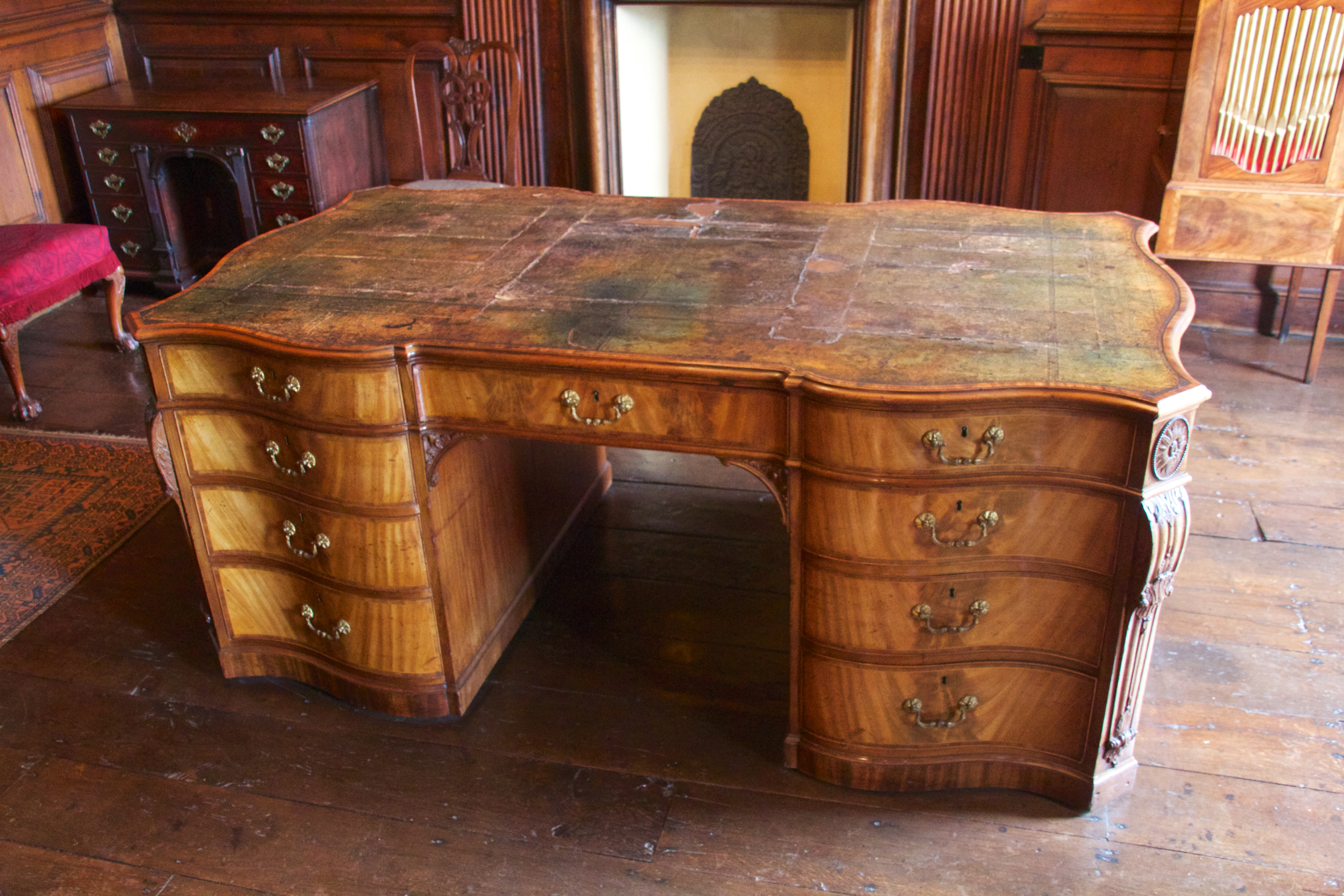 The 'Denton Hall' library table, 1778. Made by Gillows of Lancaster to a Chippendale design. LANMS 1994127. Taken during the tour and editathon at the Judges' Lodgings, Lancaster.